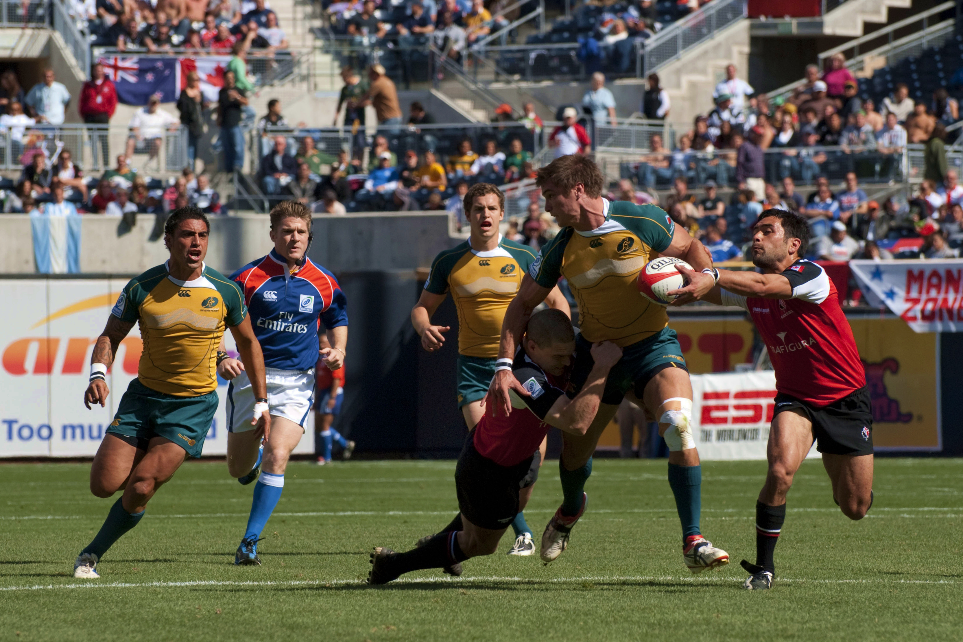 Australia played against Canada during the 2009 USA Sevens Rugby Championships at Petco Park in San Diego, February 14th. The National Guard sponsored the event which featured 16 international teams in 44 matches, and was the fourth round in the International Rugby Board (IRB) Sevens World Series. As an official sponsor of USA Rugby, the National Guard will have title sponsorships of several U.S. premier events in 2009. (U.S. Air Force Photo by Tech Sgt. Julie Avey)